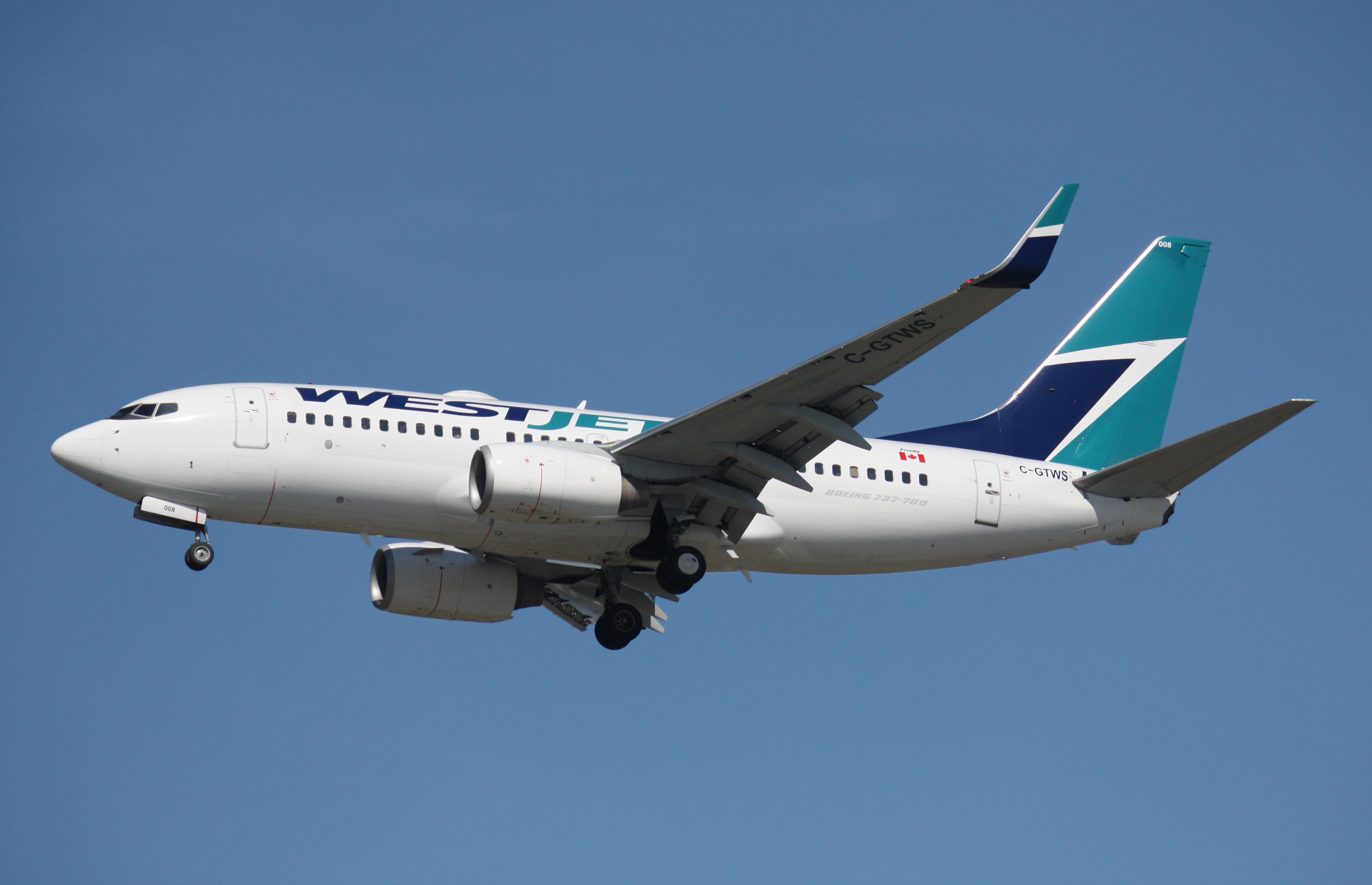 A WestJet Boeing 737-76N landing at Vancouver International Airport